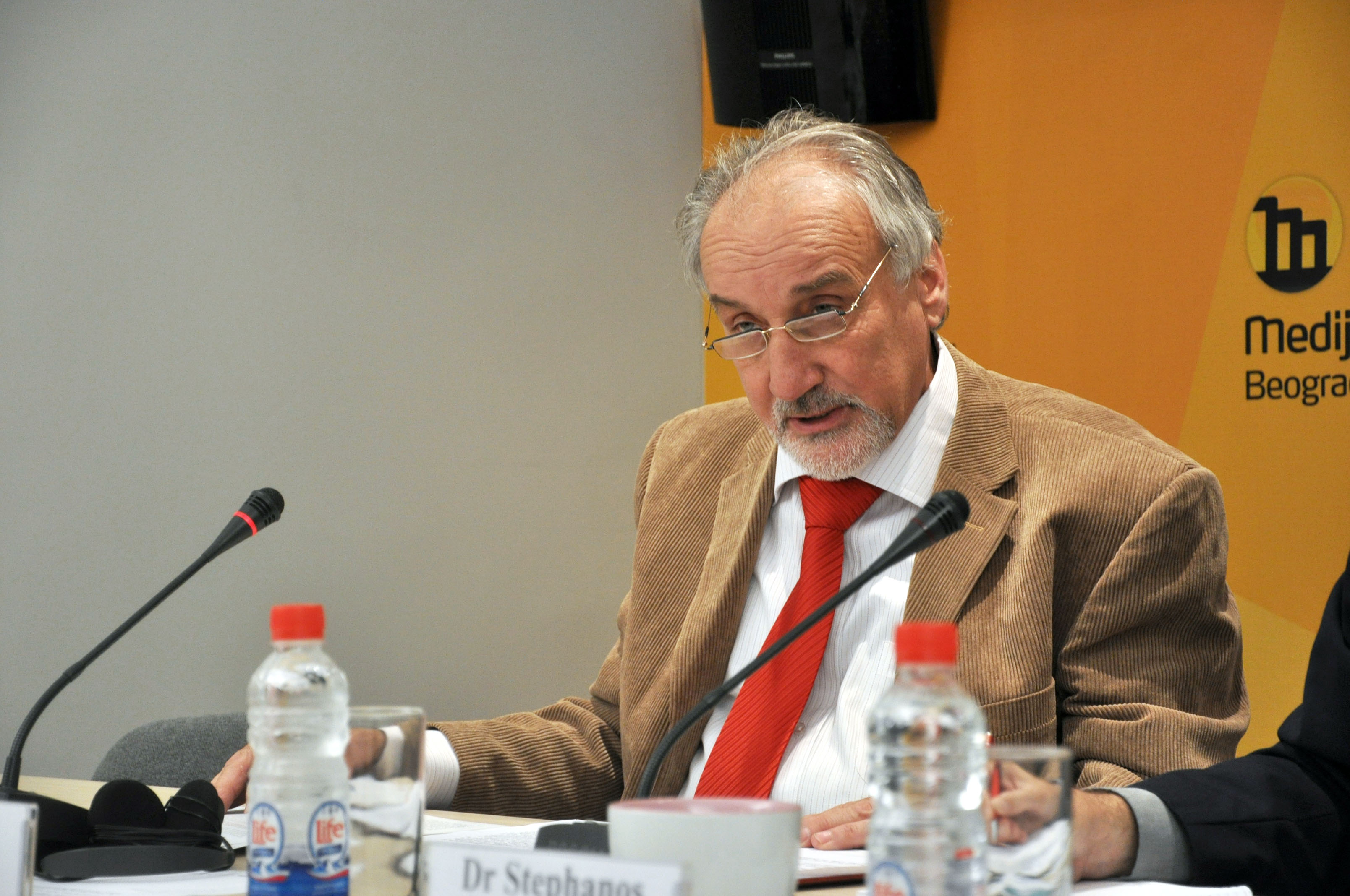 Vladimir Vukčević